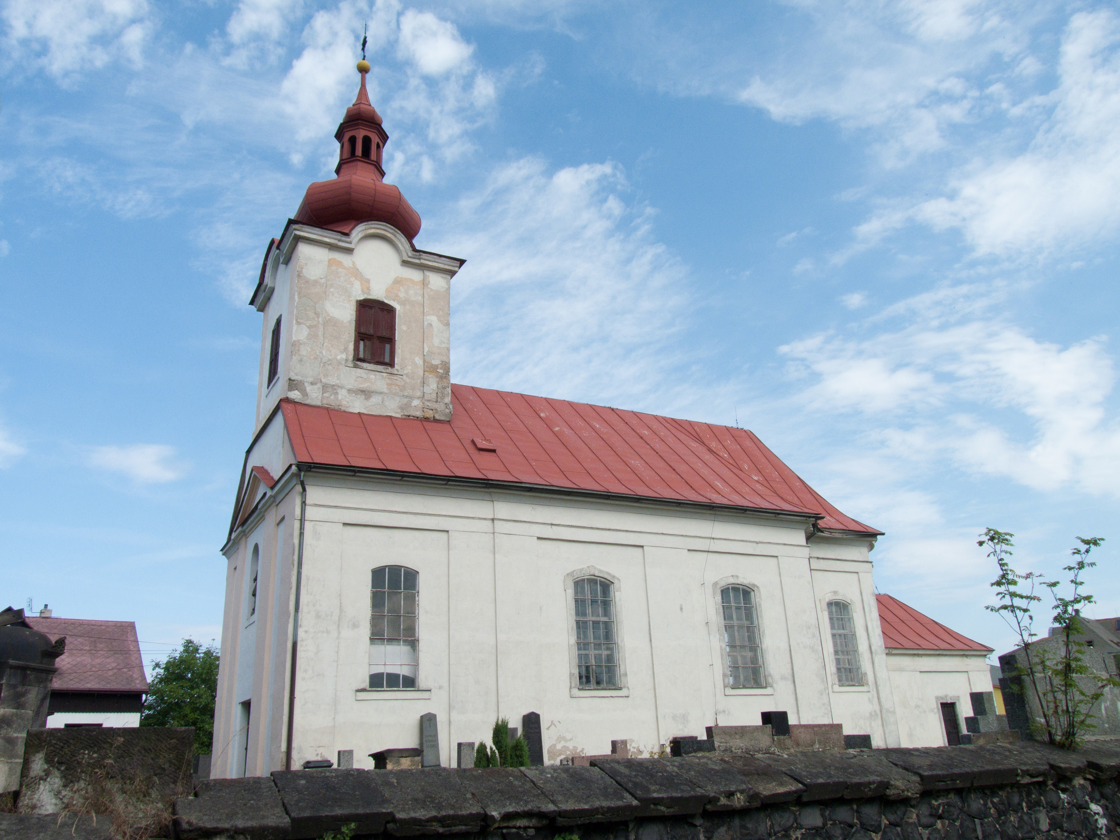 Saint Lawrence Church in the village of Prácheň, Česká Lípa District, Czech Republic